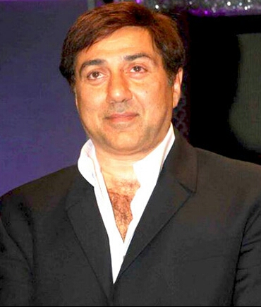 Sunny Deol 2012